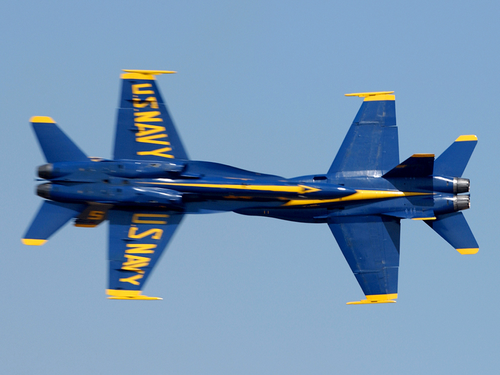 Hillsboro, Ore. (Aug. 15, 2004) - The lead and opposing solo pilots assigned to the U.S. Navy's flight demonstration team, the "Blue Angels," perform the opposing Knife-Edge Pass at the Oregon International Air Show in Hillsboro, Ore. The Blue Angels fly the F/A-18A Hornet, performing approximately 30 maneuvers during the aerial demonstration lasting over an hour. (crop)